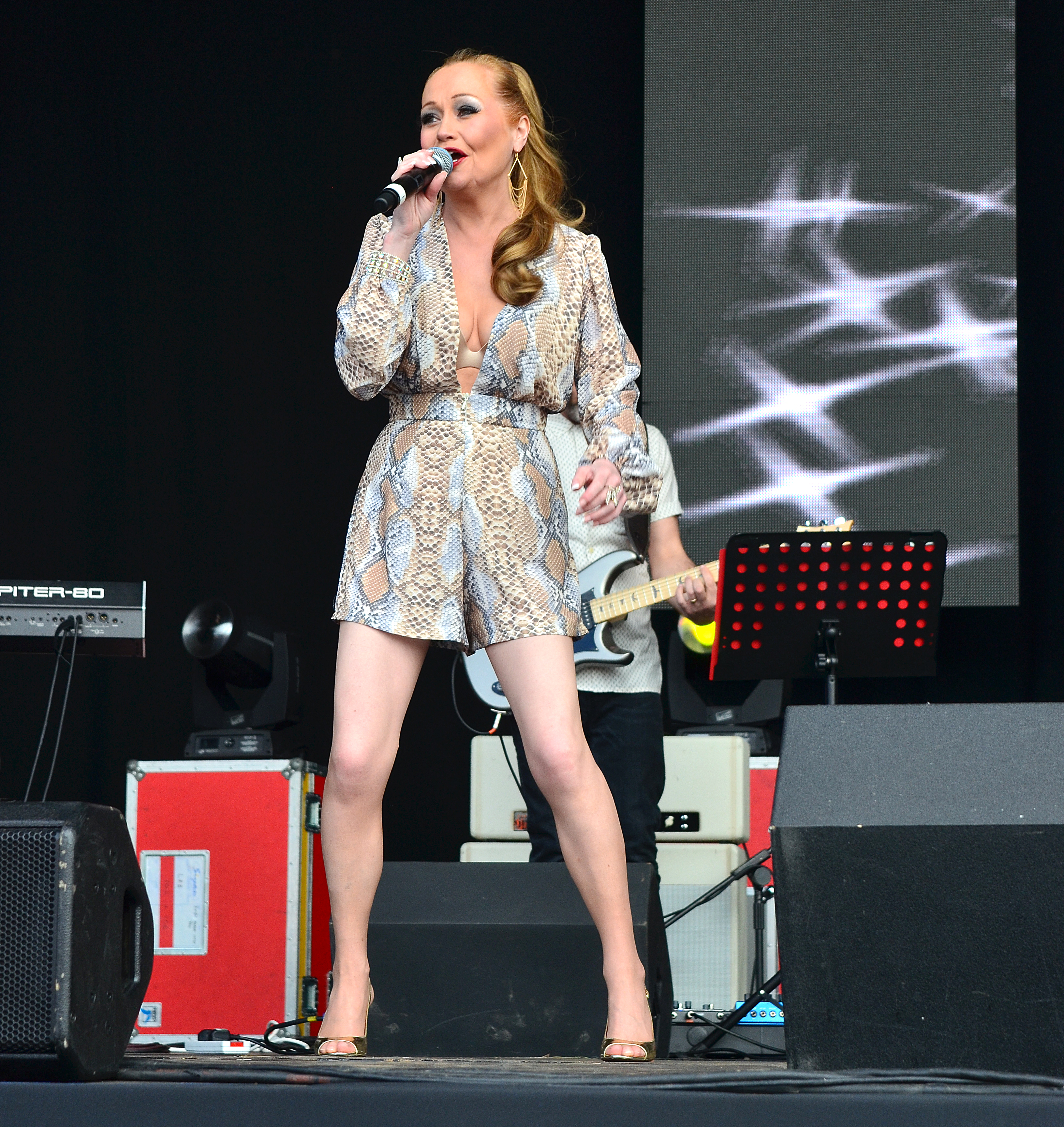 Sonia Evans at Lets Rock Bristol 2014.